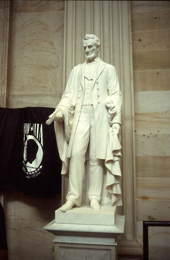 Statue of Abraham Lincoln († 1865) by Vinnie Ream. Stands in the rotunda of the United States Capitol